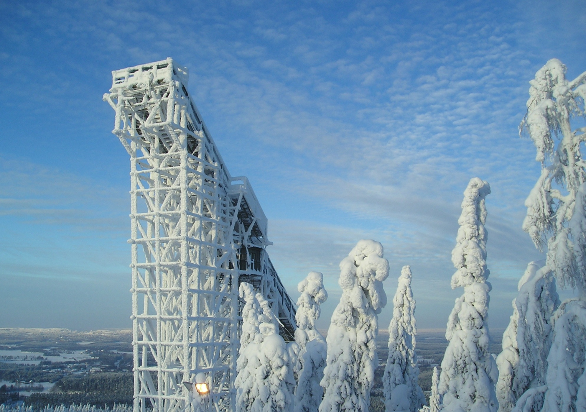 Ski jumping facility in Vuokatti ski resort, Sotkamo, Finland.